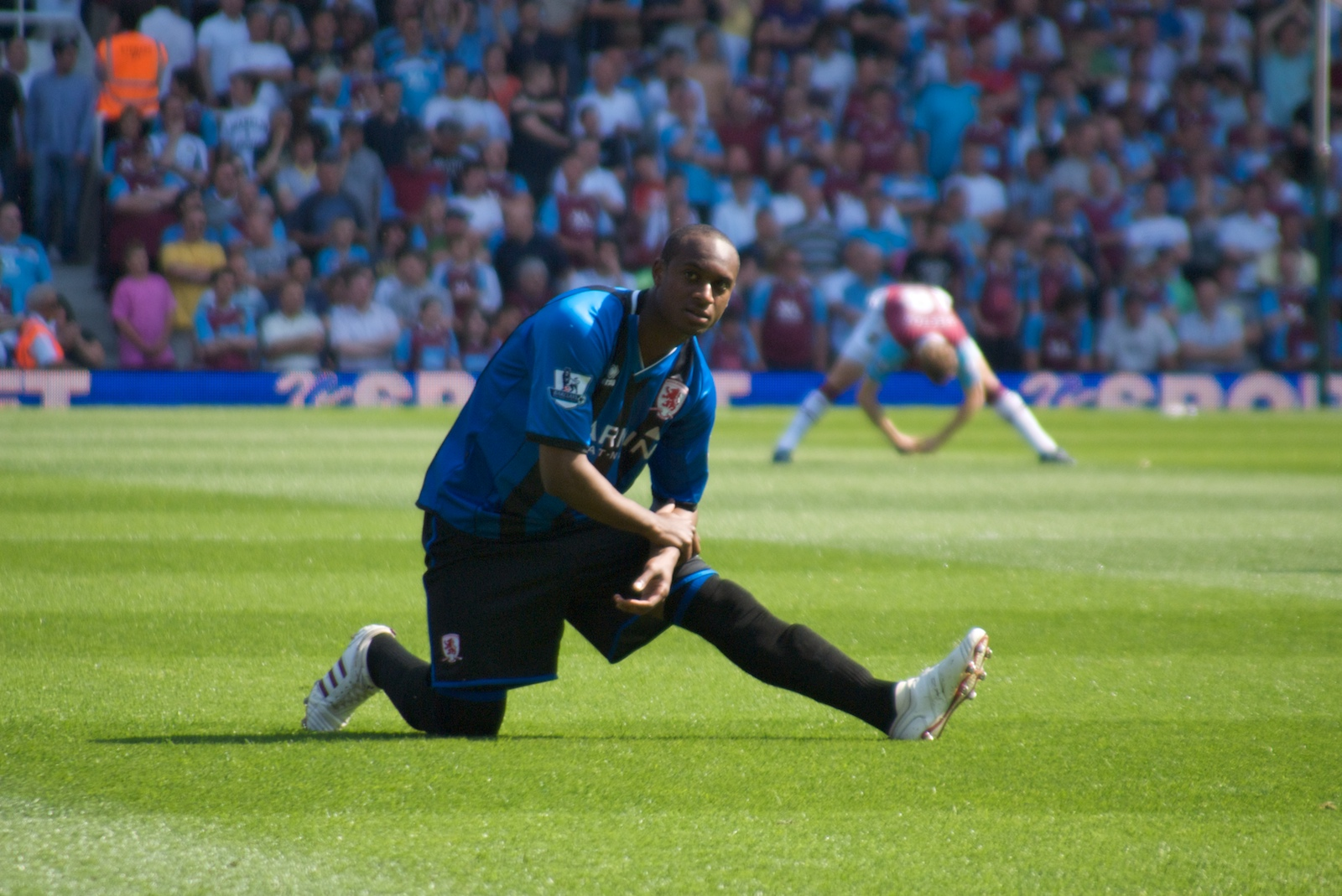 Justin Hoyte playing for Middlesbrough in their last game of the 2008/09 season, at West Ham United on 24 May 2009.